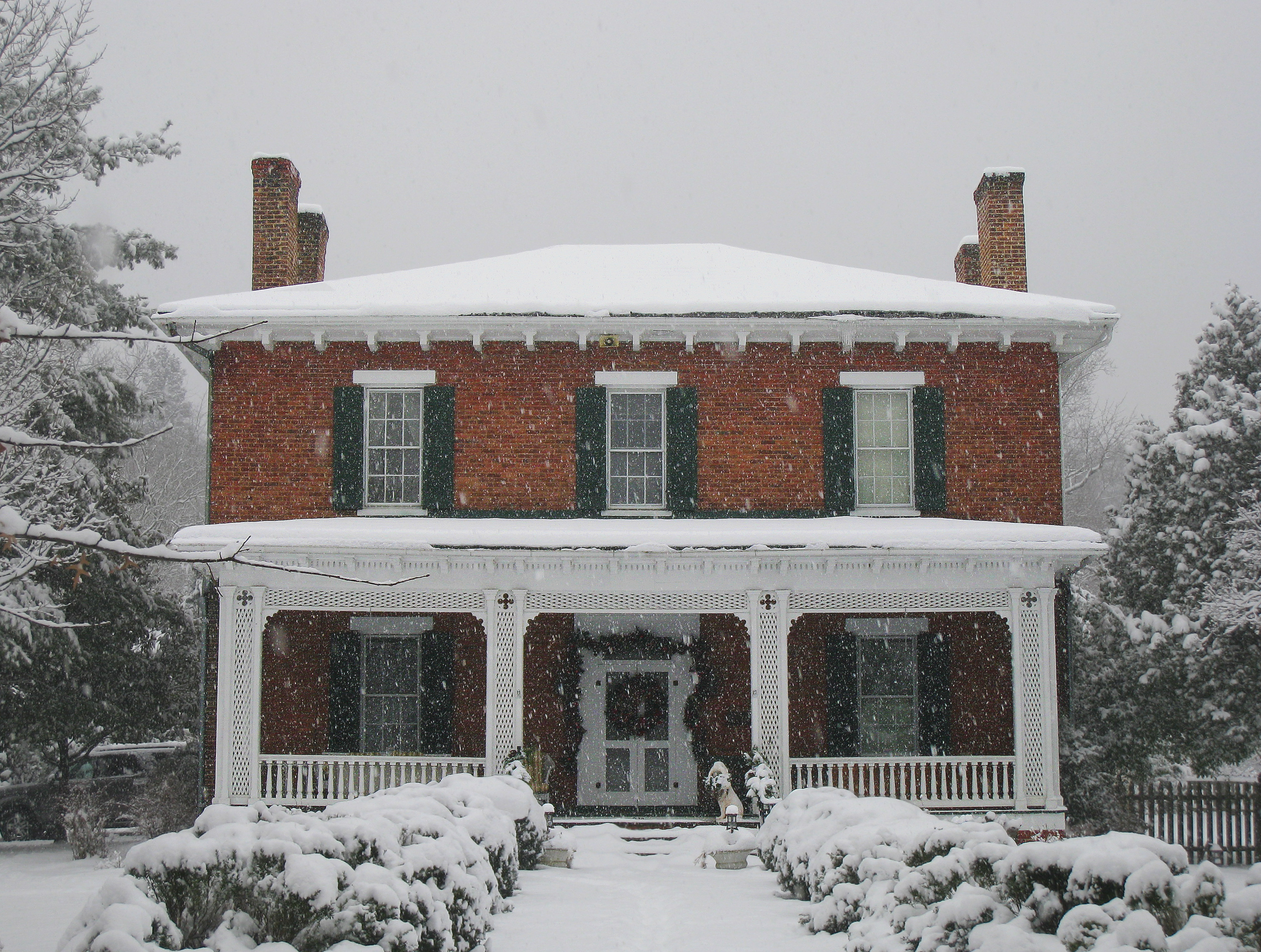 Liberty Hall (1858) is a mid-19th century residence along East Main Street (U.S. Route 50) in Romney, West Virginia, United States. Photographed on 5 February 2010.